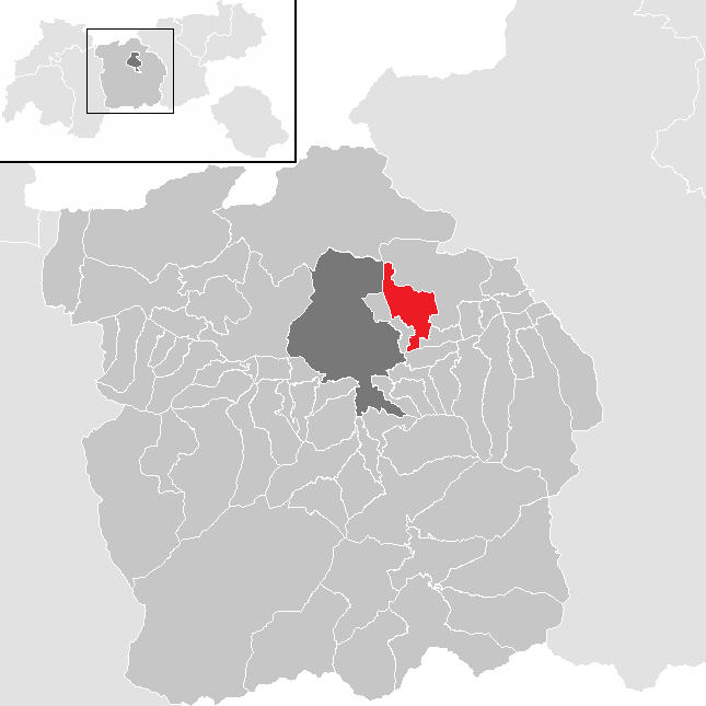 District Innsbruck Land